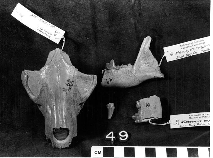 Mesocyon skull, University of California Museum of Paleontology.